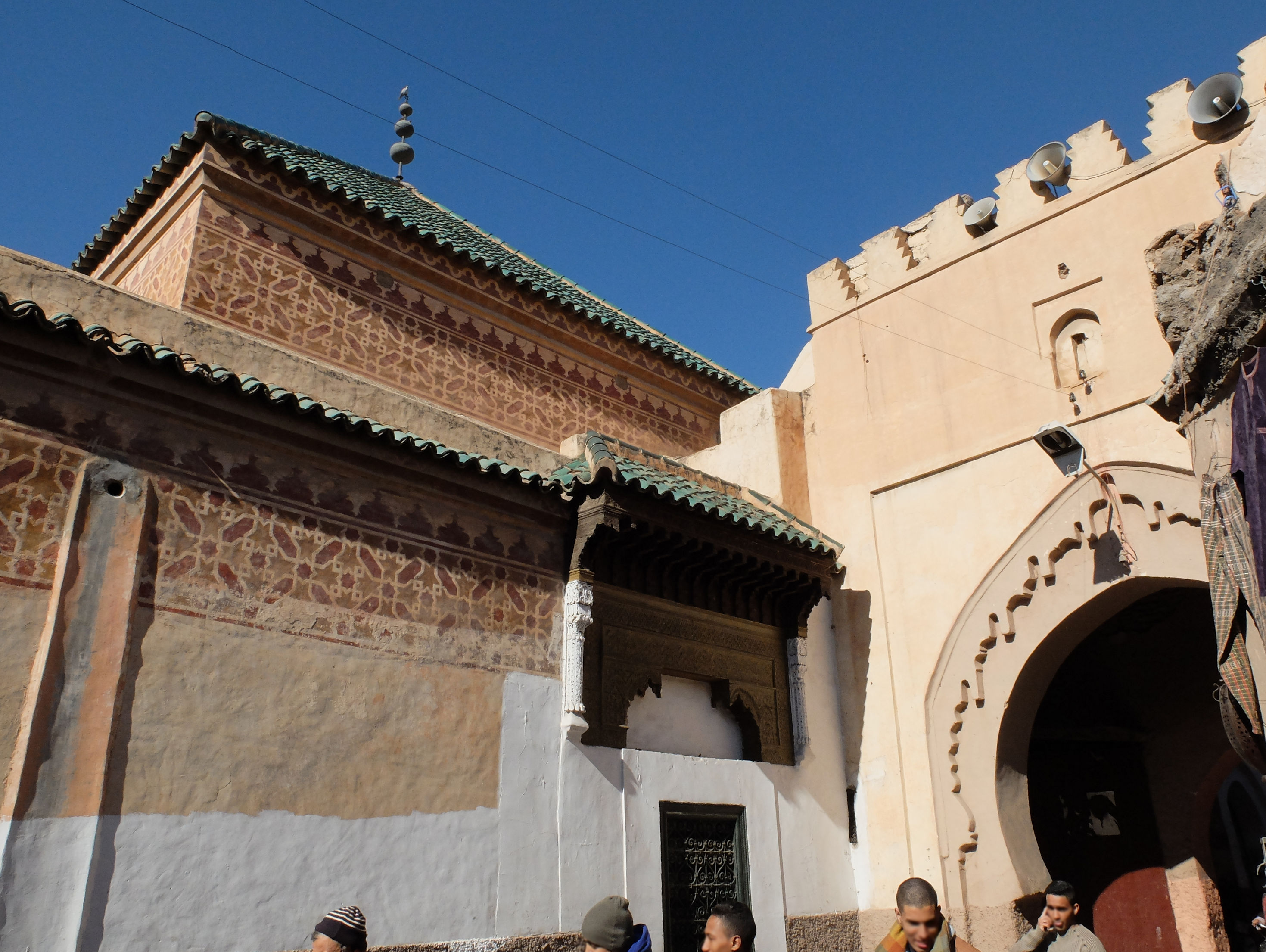 Eastern wall and street gate of the Zawiya of Sidi Abdelaziz. The pyramidal green roof is presumably the cupola over the mausoleum chamber.